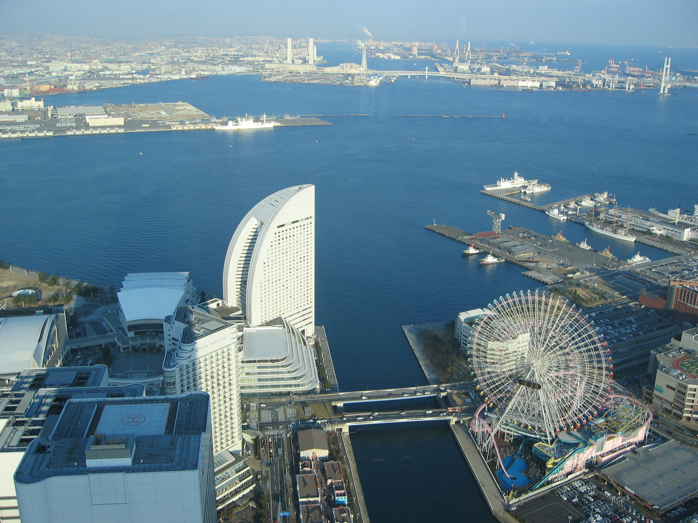 A shot of Minato Mirai in Yokohama showing Pacifico Yokohama and the ferris wheel.